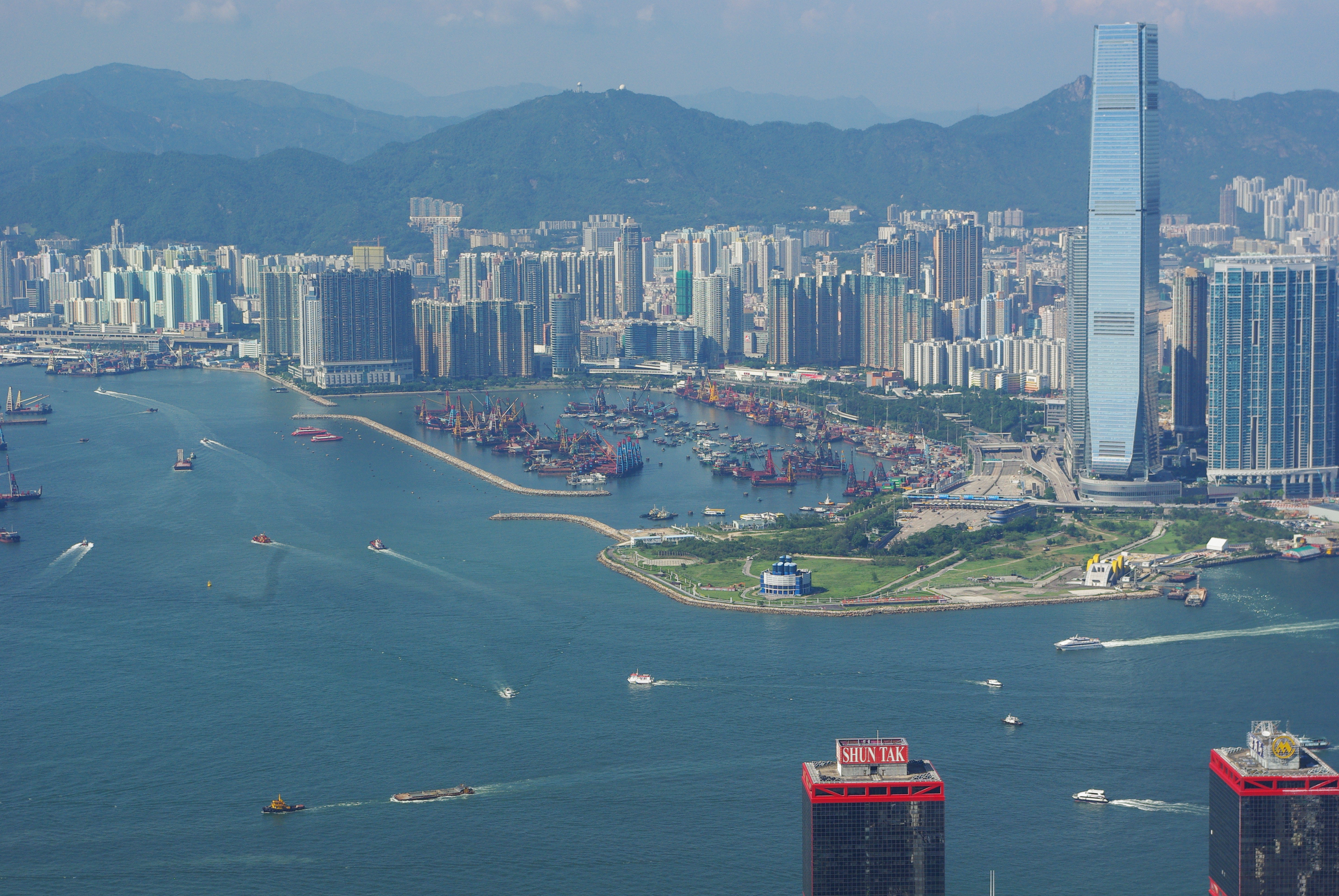 New Yau Ma Tei Typhoon shelter from Victoria Peak in Hong-Kong